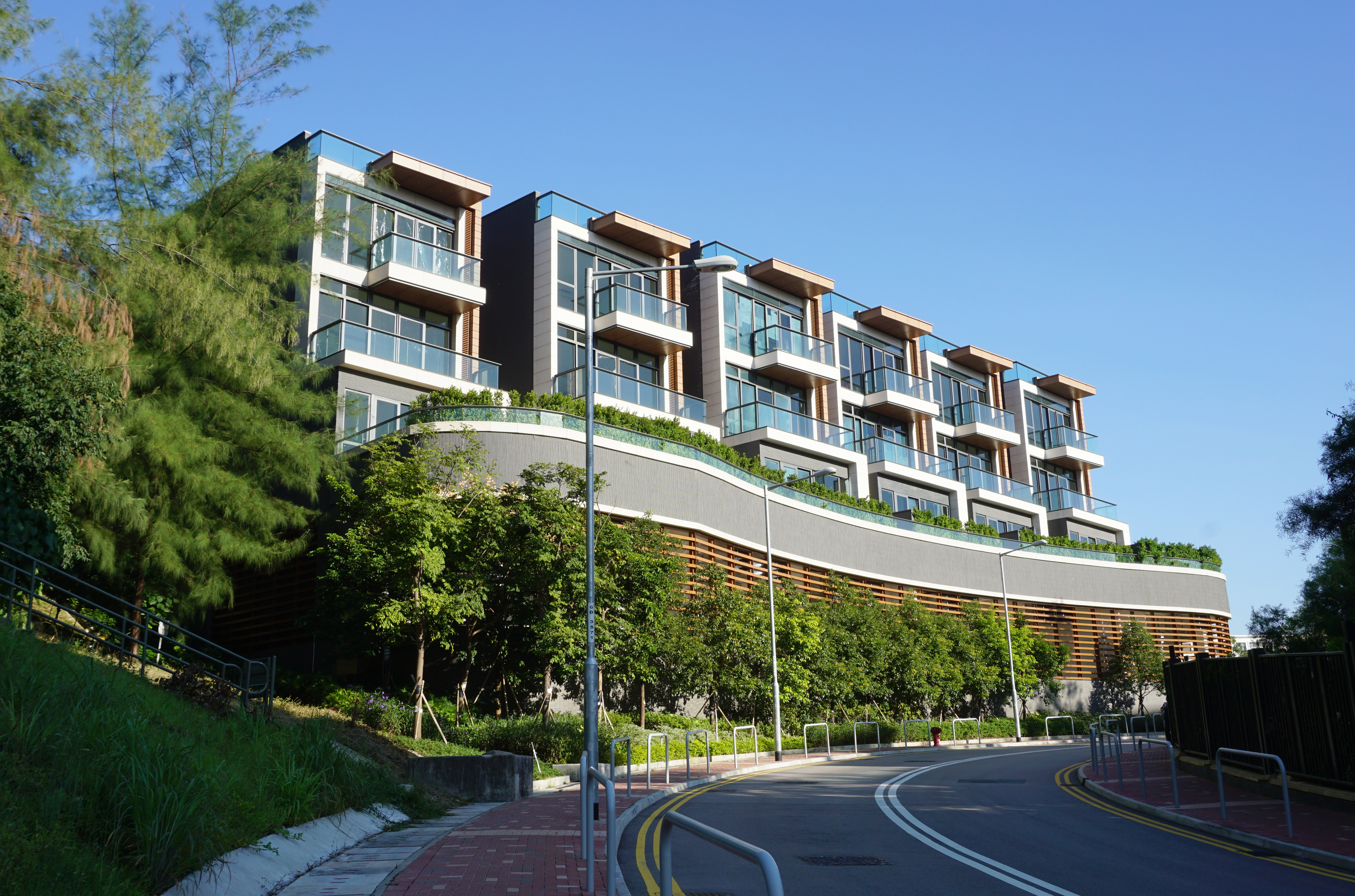 The Highland in Tuen Mun, Hong Kong.